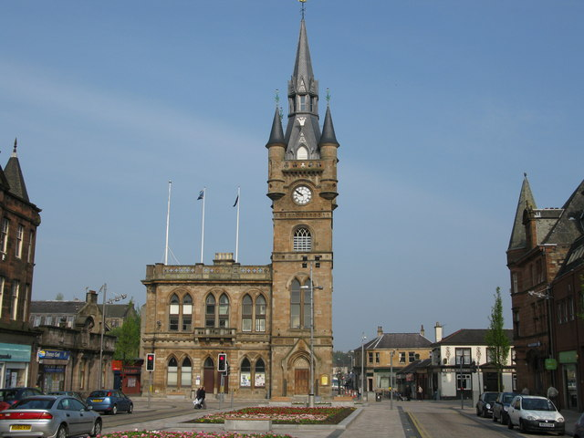 Renfrew Town Hall Grade 1 listed building in the Gothic Revival Style situated at the end of High Street.